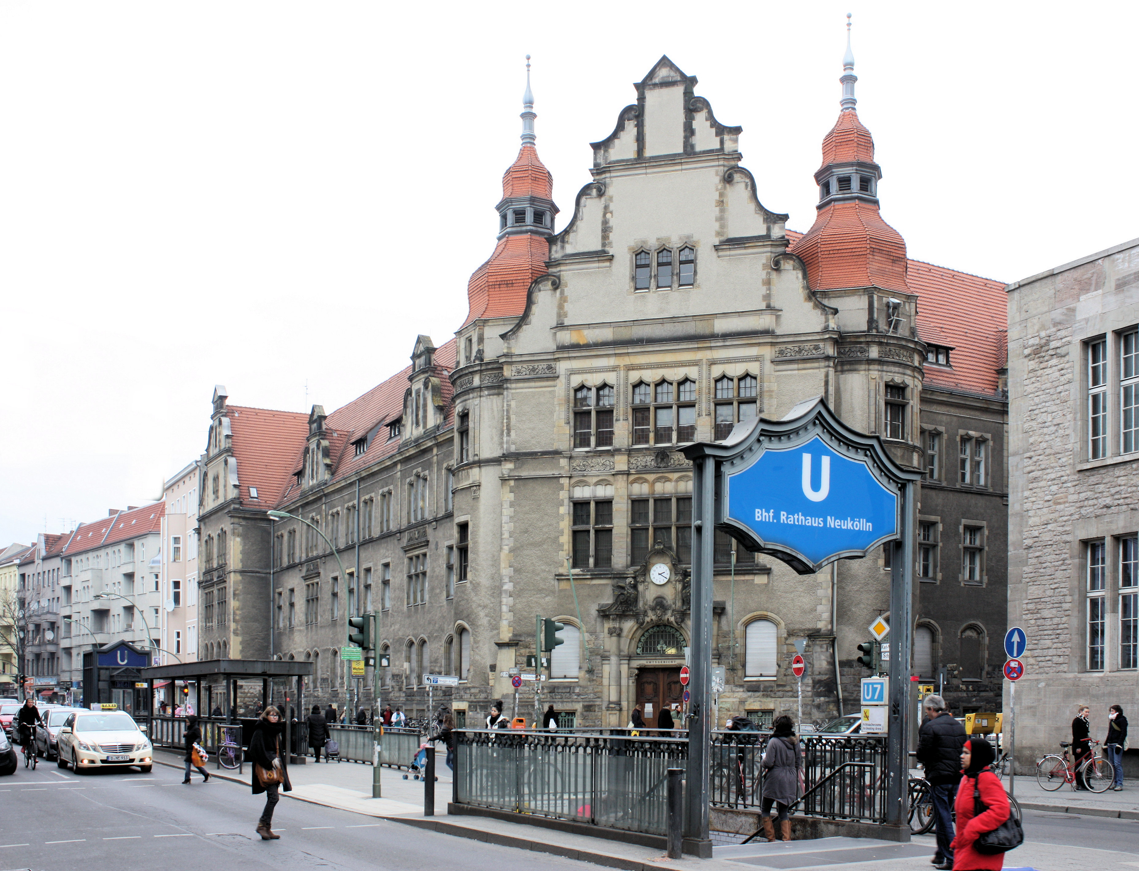 Berlin-Neukölln, the district court, shot in 2013